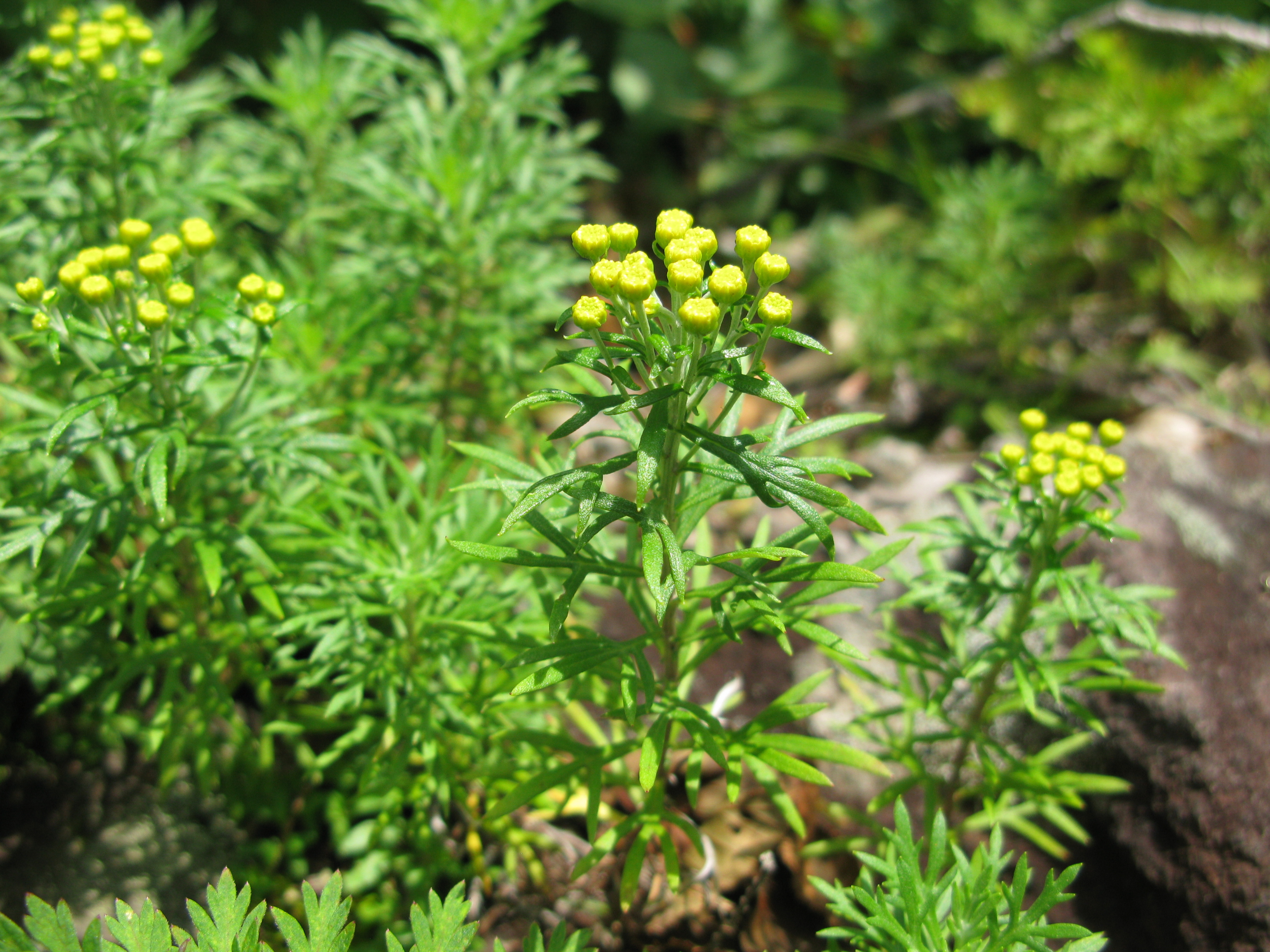 Chrysanthemum rupestre, Mt. Bandaisan, Fukushima pref., Japan